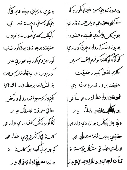 Translation of Golšan-e rāz to azeri by Sheikh Alvān of Shiraz